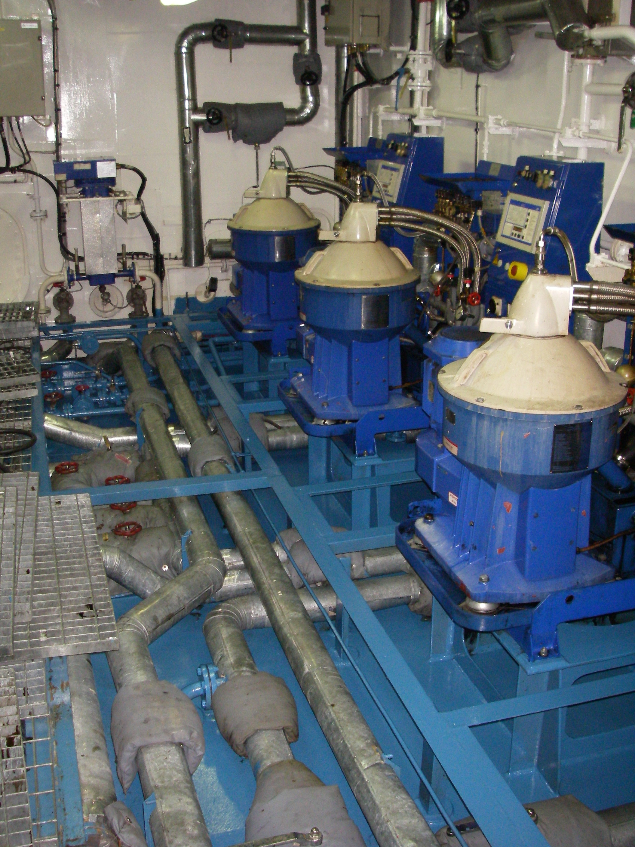 HFO purifiers in an Oil Tanker